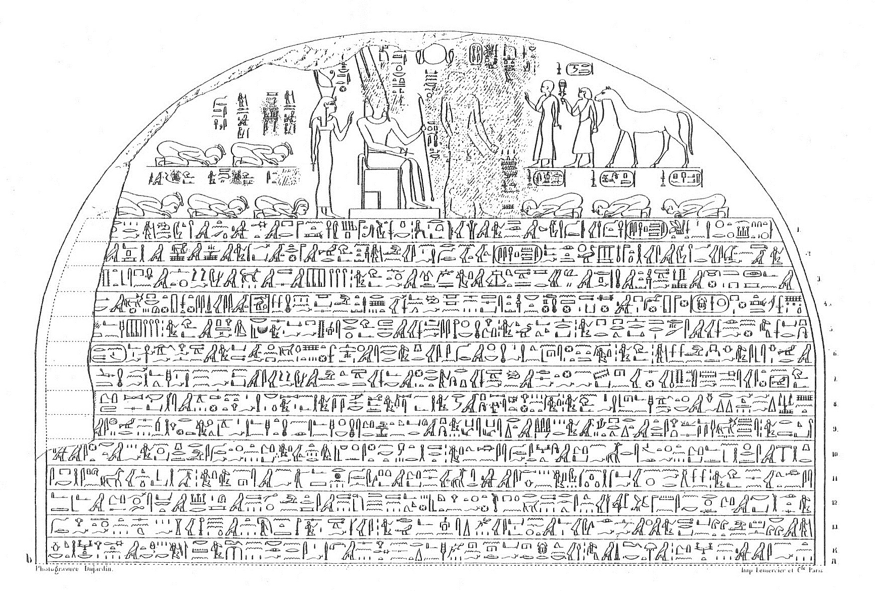 Drawing of the upper part of the victory stele of pharaoh Piye. The lunette on the top depicts Piye being tributed by various Lower Egypt rulers, and the text describes his successful invasion of Egypt. Further details of the lunette are visible in the extracted image (link below). Original stele in granite, found at Jebel Barkal and datable to the reign of Piye, 25th dynasty, now in the Cairo Museum.